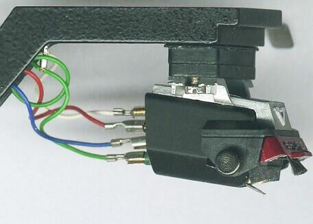 Magnetic cartridge Shure V15VxMR.